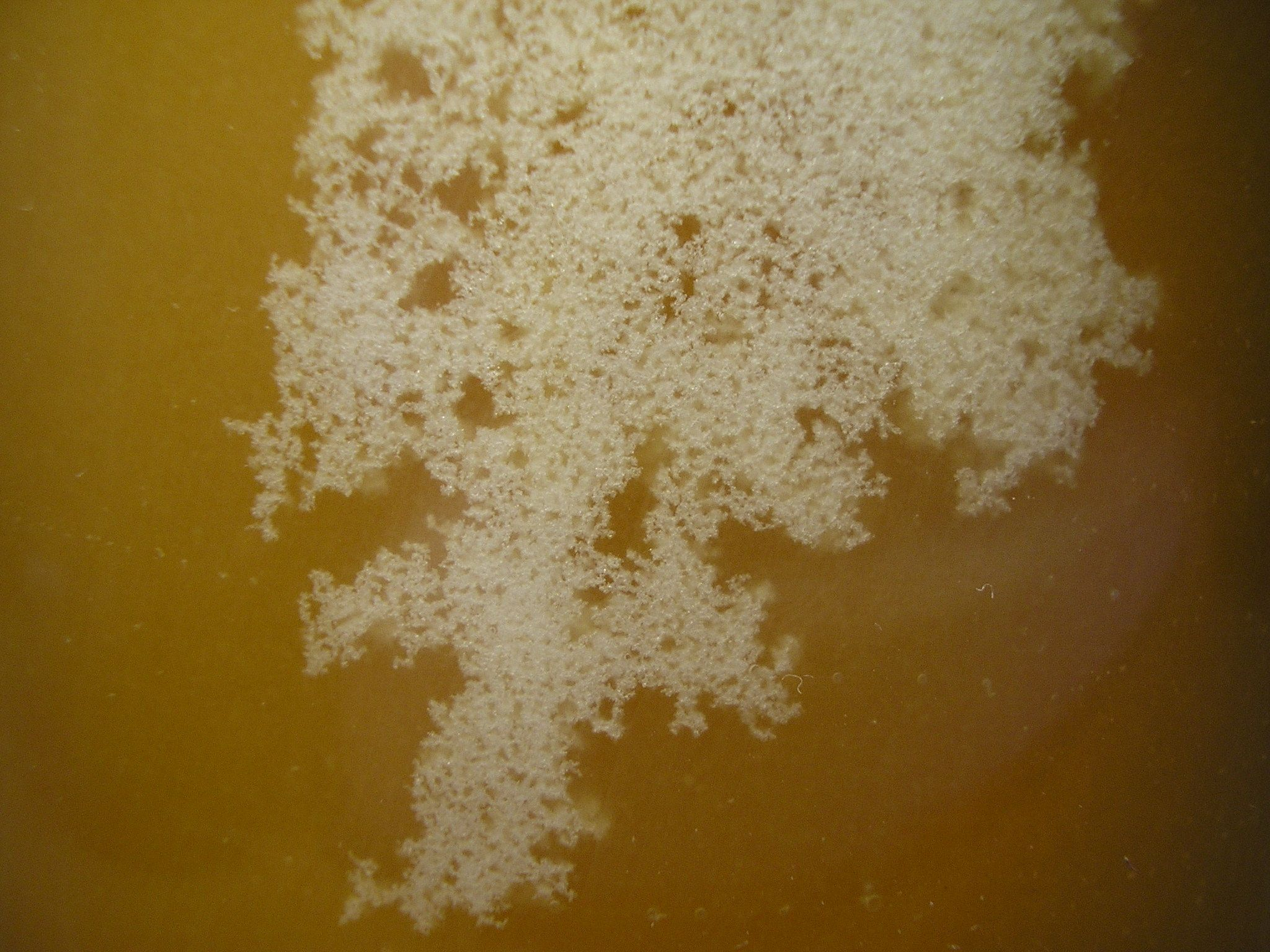 A photo of crystallized honey - you can see fractal structure